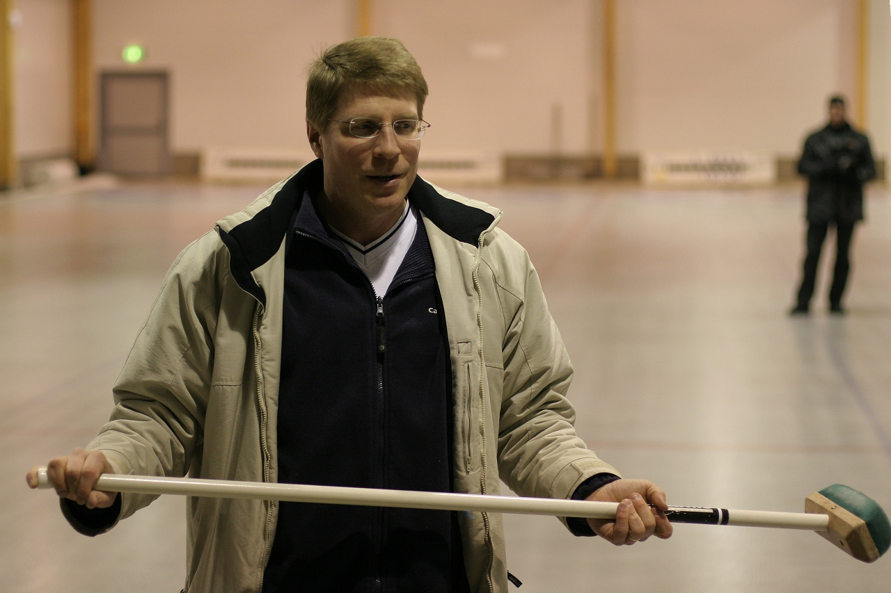 The skip of the Finnish curling team, Markku Uusipaavalniemi, also known as Uusis or M15. He got quite a lot of fame in Finland during the 2006 Winter Olympics and Flickr didn't seem to have much material about him yet, so here's my contribution. :) (Oh well, it appears that the photo is leaning slightly to the right; I was just too sleepy to notice it while uploading. I'll see if I'll fix it at some point...)